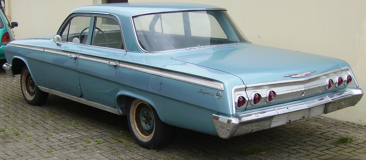 A Chevrolet Impala of the second generation from the 1960ies